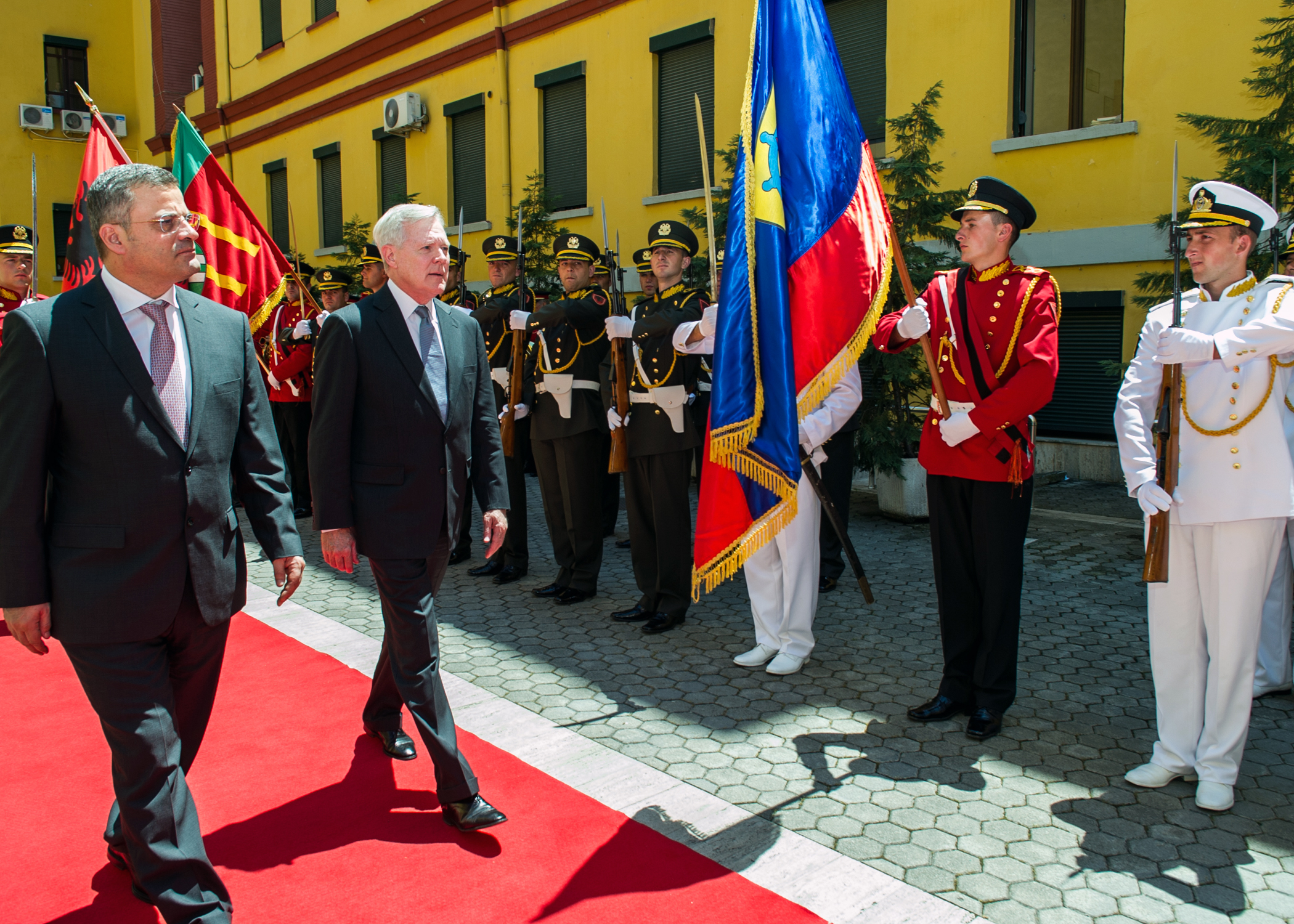 TIRANA, Albania (June 7, 2012) Secretary of the Navy (SECNAV) the Honorable Ray Mabus and Arben Fahri Imami, Albania's Minister of Defense, receive honors from Albanian soldiers outside the Ministry of Defense in Tirana, Albania. Mabus met with Albanian officials to discuss continued bilateral naval cooperation and expressed appreciation for Albania's continued commitment to Afghanistan, stability in western Balkans, and encouraged efforts to strengthen the country's defense reforms and initiatives. (U.S. Navy photo by Chief Mass Communication Specialist Sam Shavers/Released) 120607-N-AC887-005 Join the conversation navylive.dodlive.mil